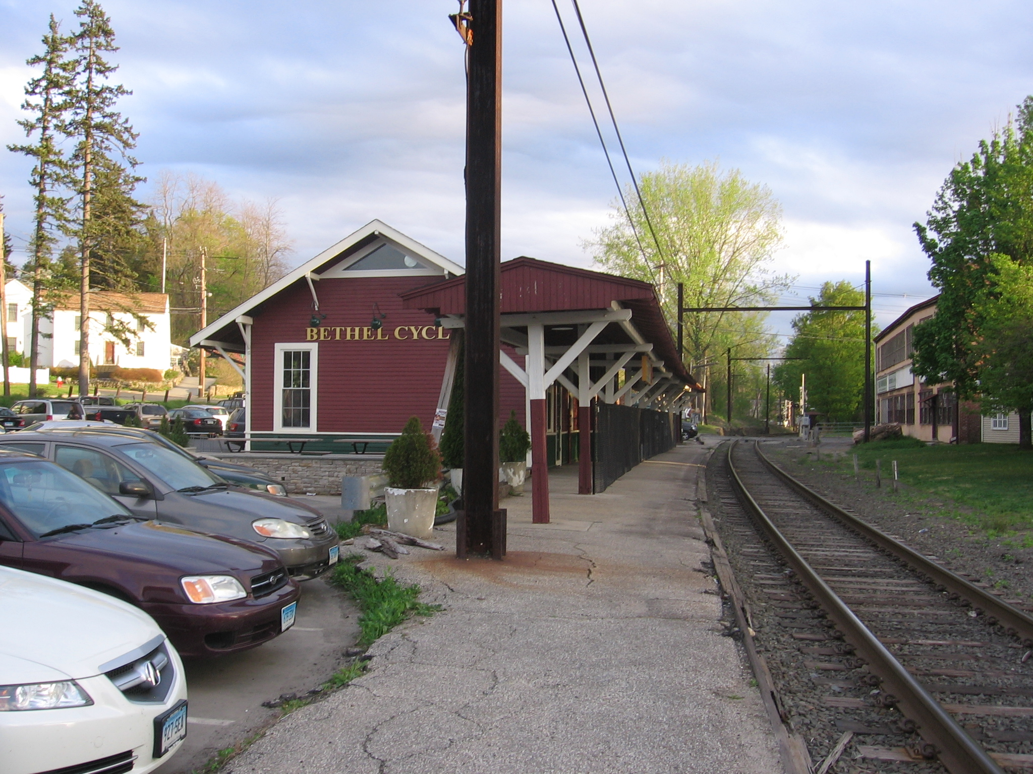 The Bethel Cycle shop in the old Bethel Station house along the former Danbury and Norwalk Railroad.